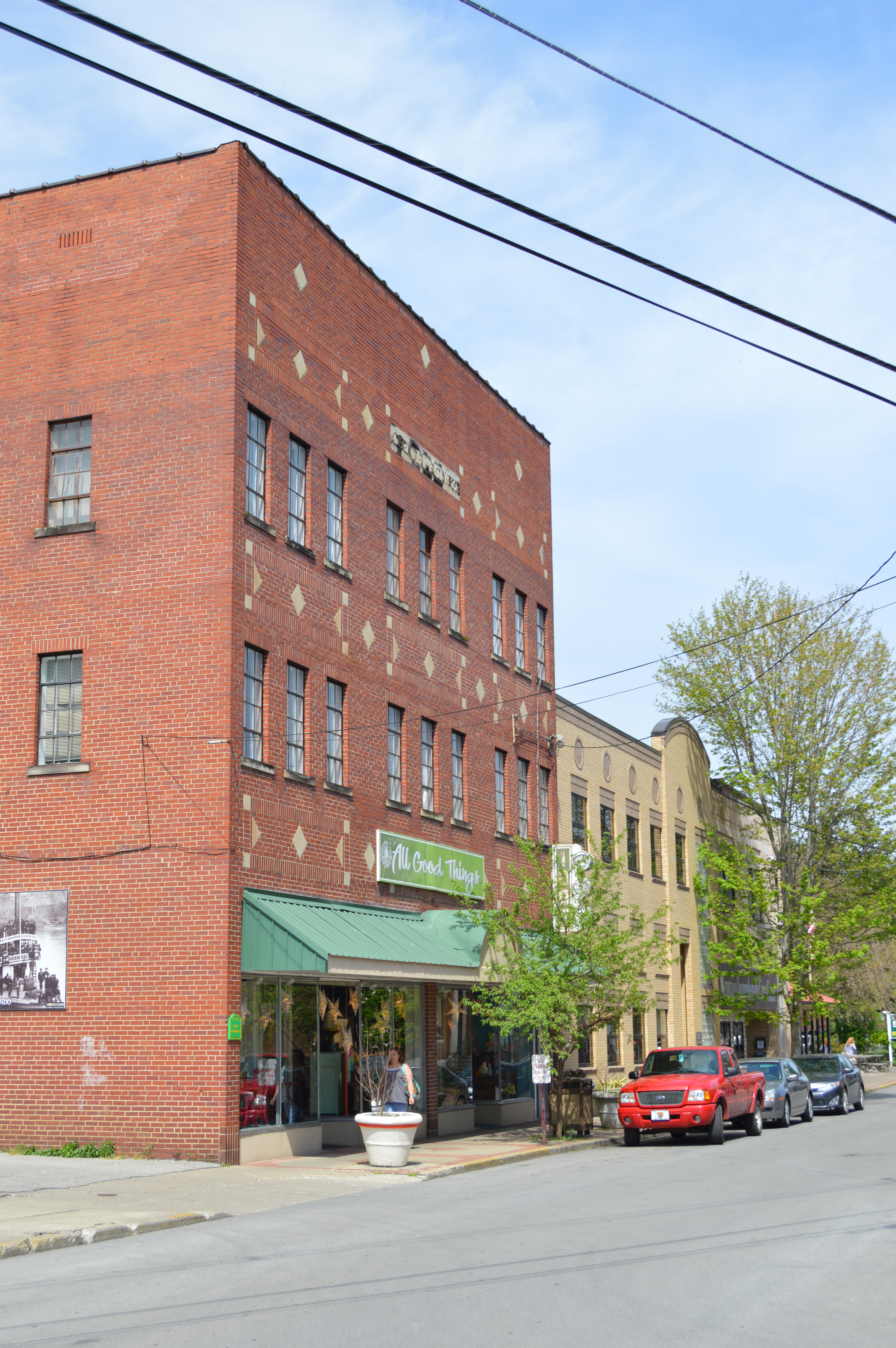 Buildings on the western side of Front Street north of Ford Street in Prestonsburg, Kentucky, United States. This section of Front is part of the Front Street Historic District, a historic district that is listed on the National Register of Historic Places.